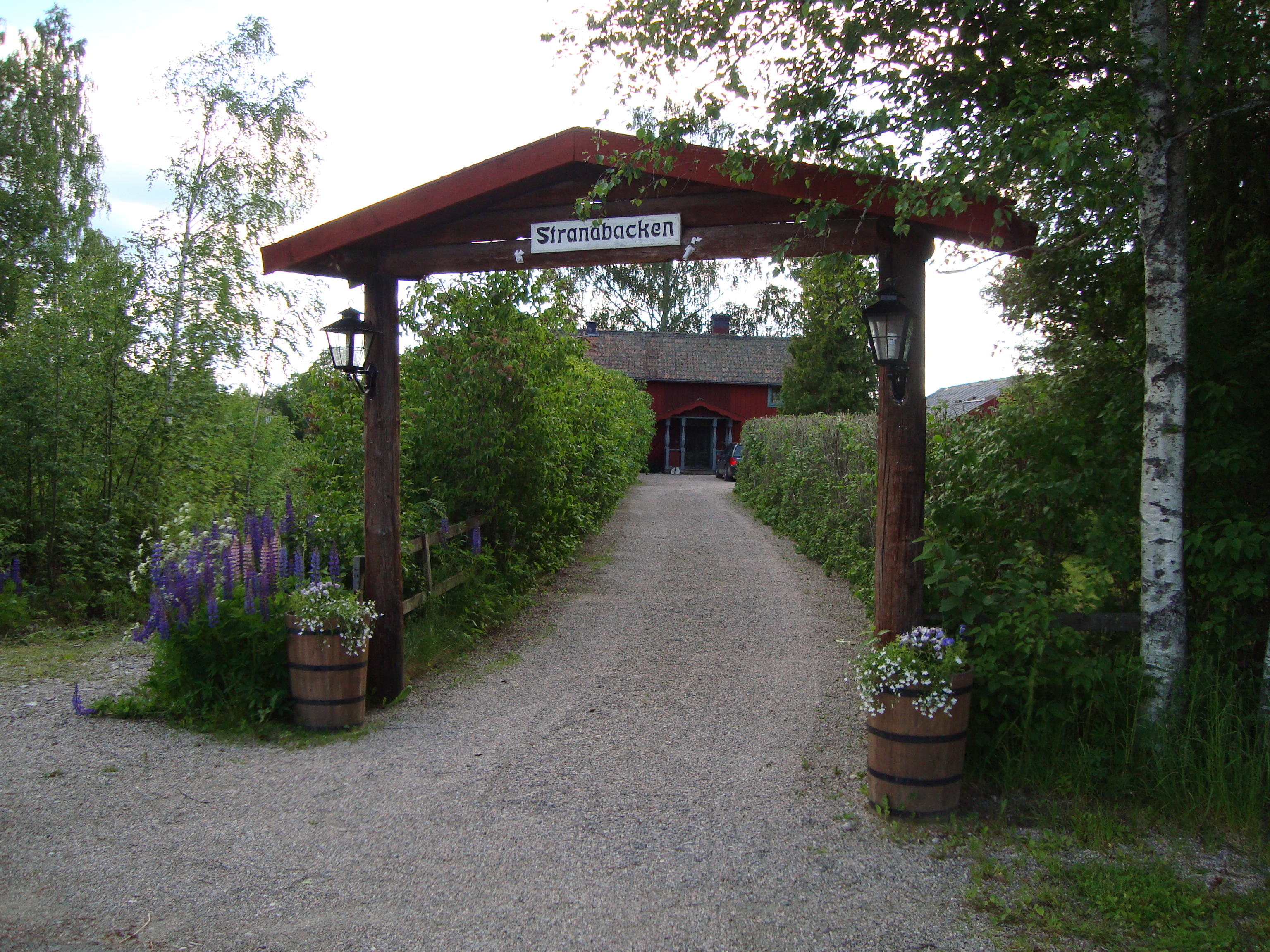 Strandbacken, Avesta, Sweden